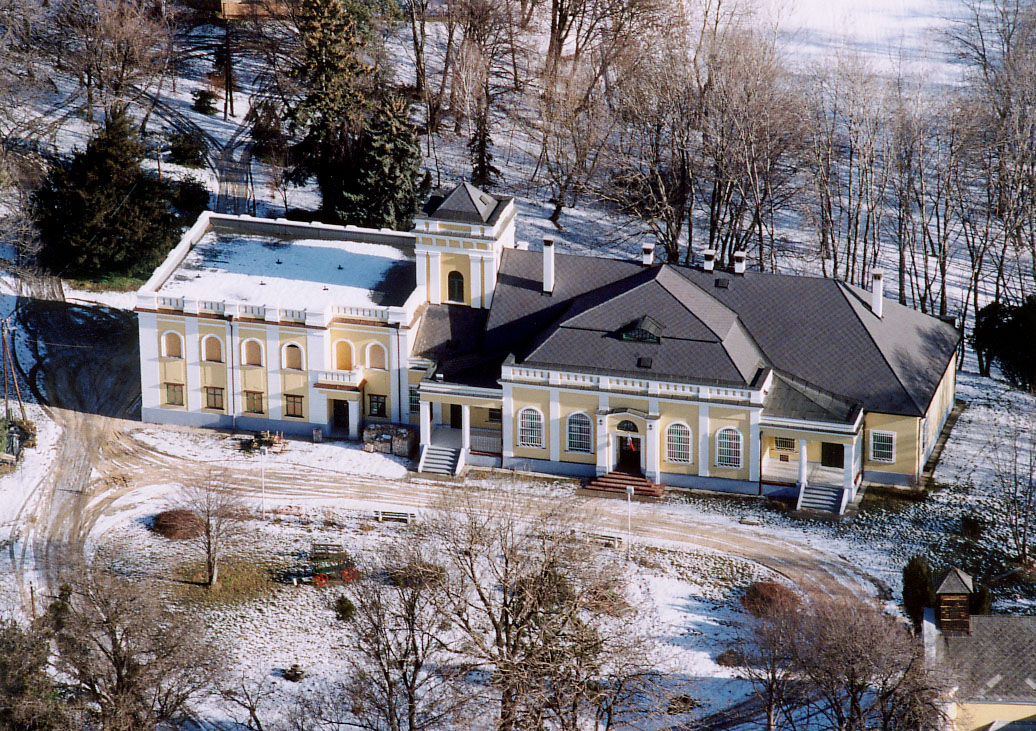 Csetény, Hungary, Holitscher Castle, aerial photography